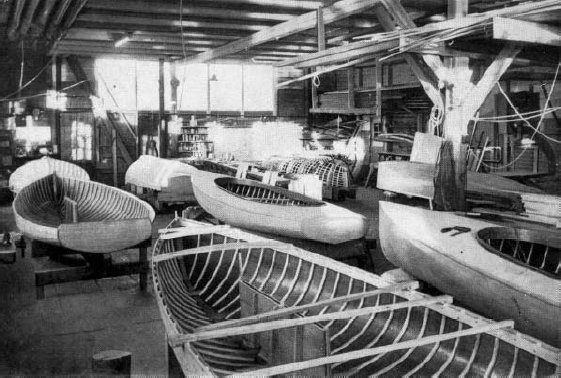 The Olympic (Finn) under construction in a Danish yacht-building yard